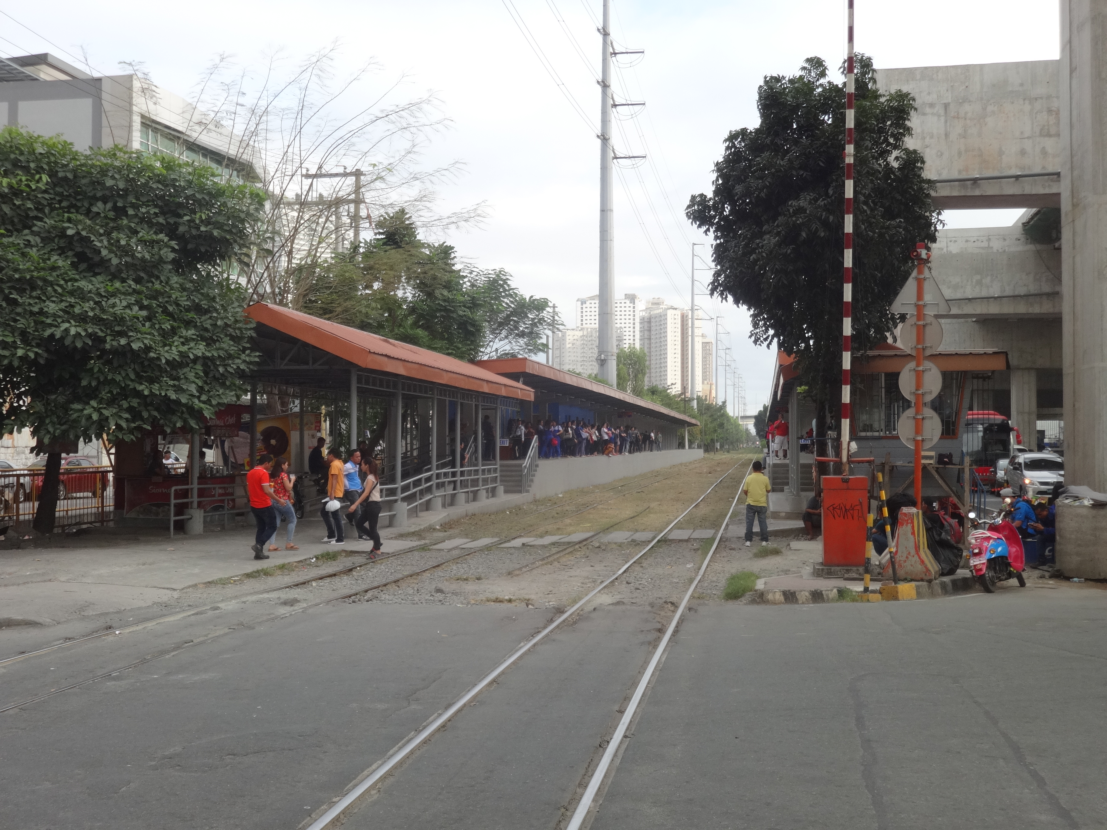 Philippine National Railways (PNR) Dela Rosa Station at South Suerhighway cor. Gil Puyat Avenue, Makati City